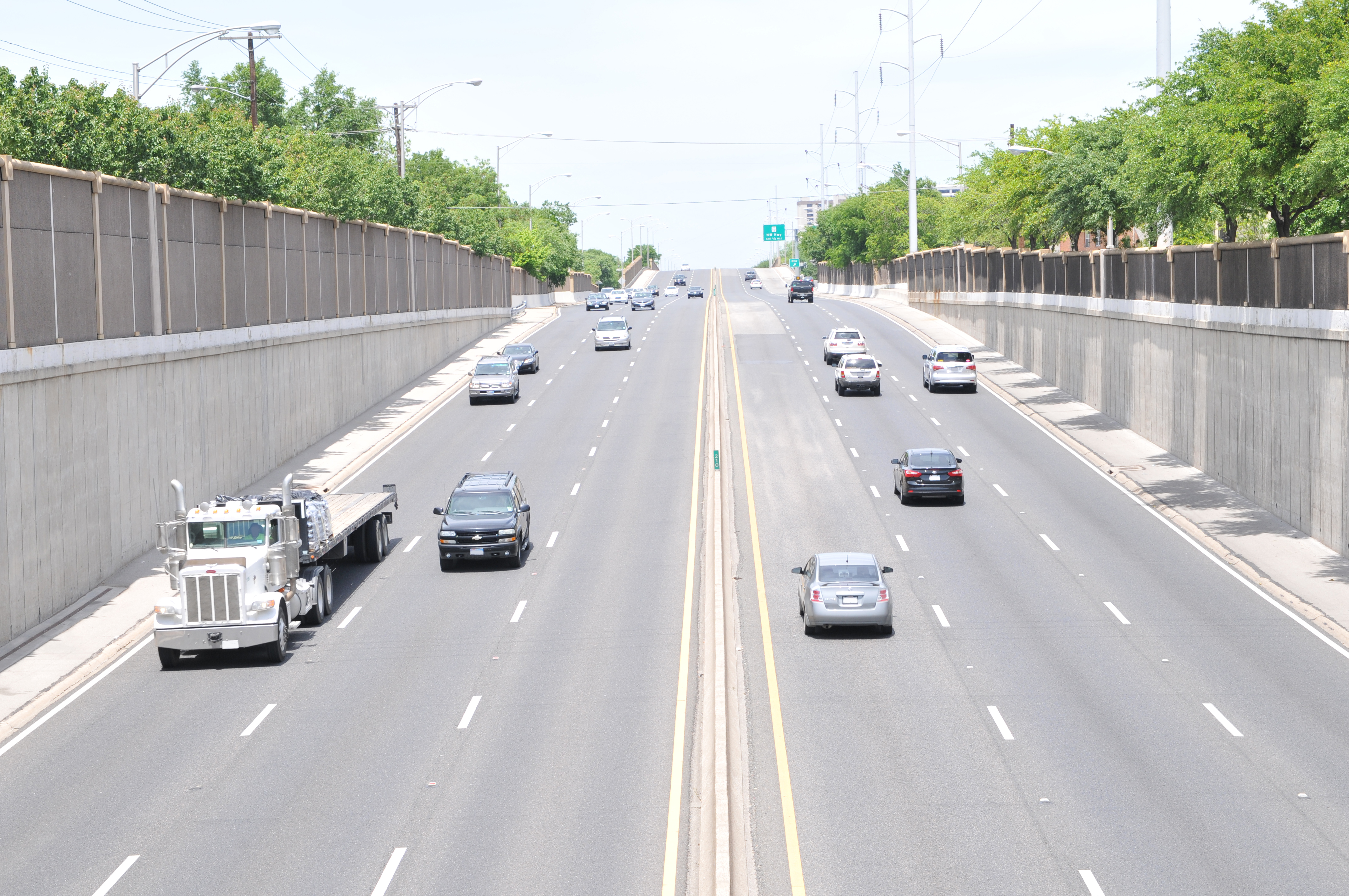 Dallas North Tollway from University Blvd north towards Lovers Lane